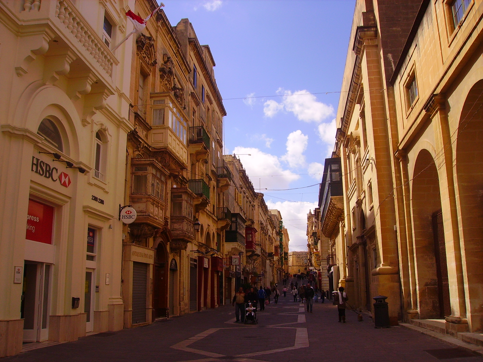 Old City of Valletta